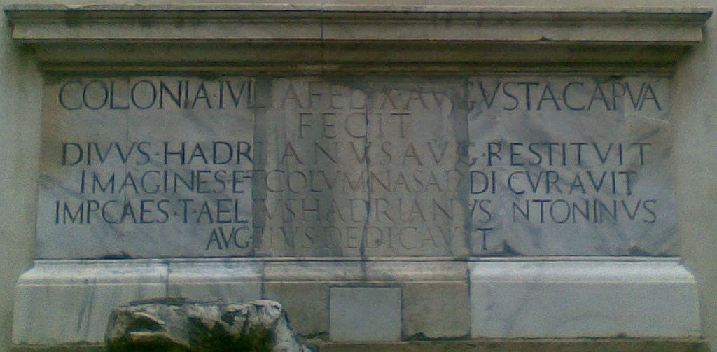 Colonia Iulia Felix inscription, found in 1726 in front of the Capuan Amphitheatre and completed by the archaeologist Alessio Simmaco Mazzocchi